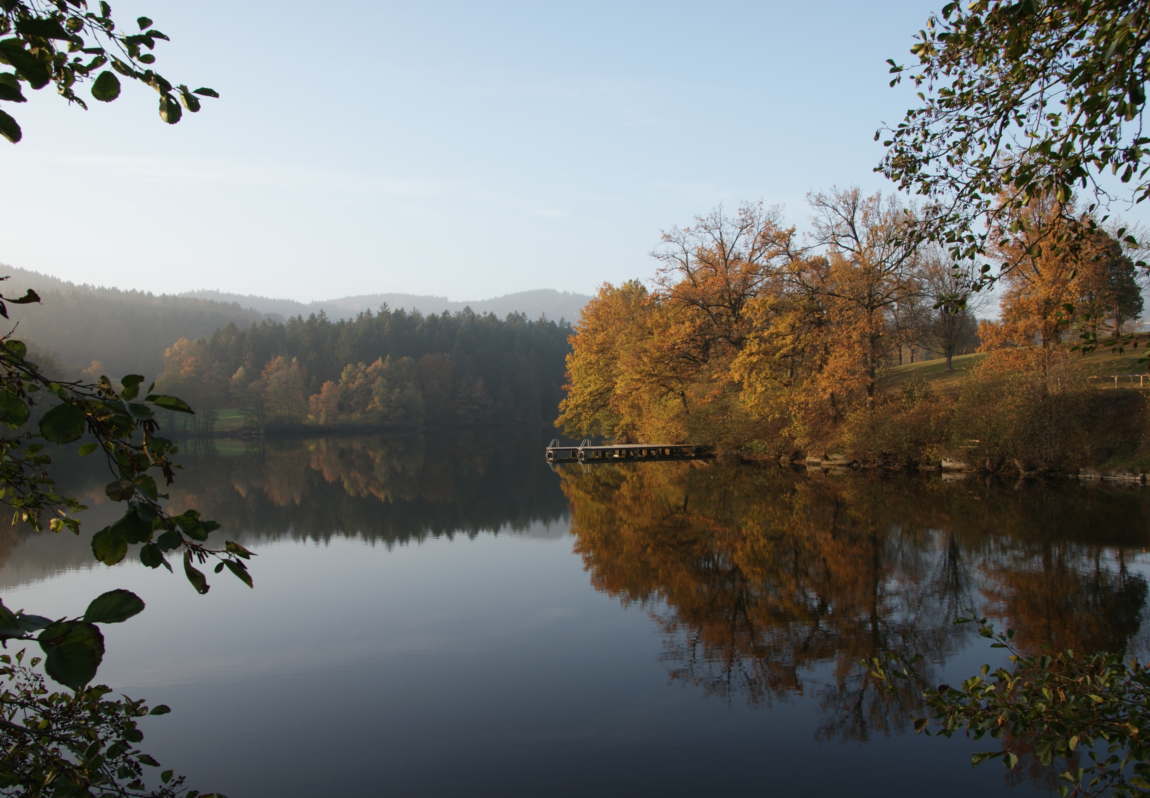 Freudensee near Hauzenberg